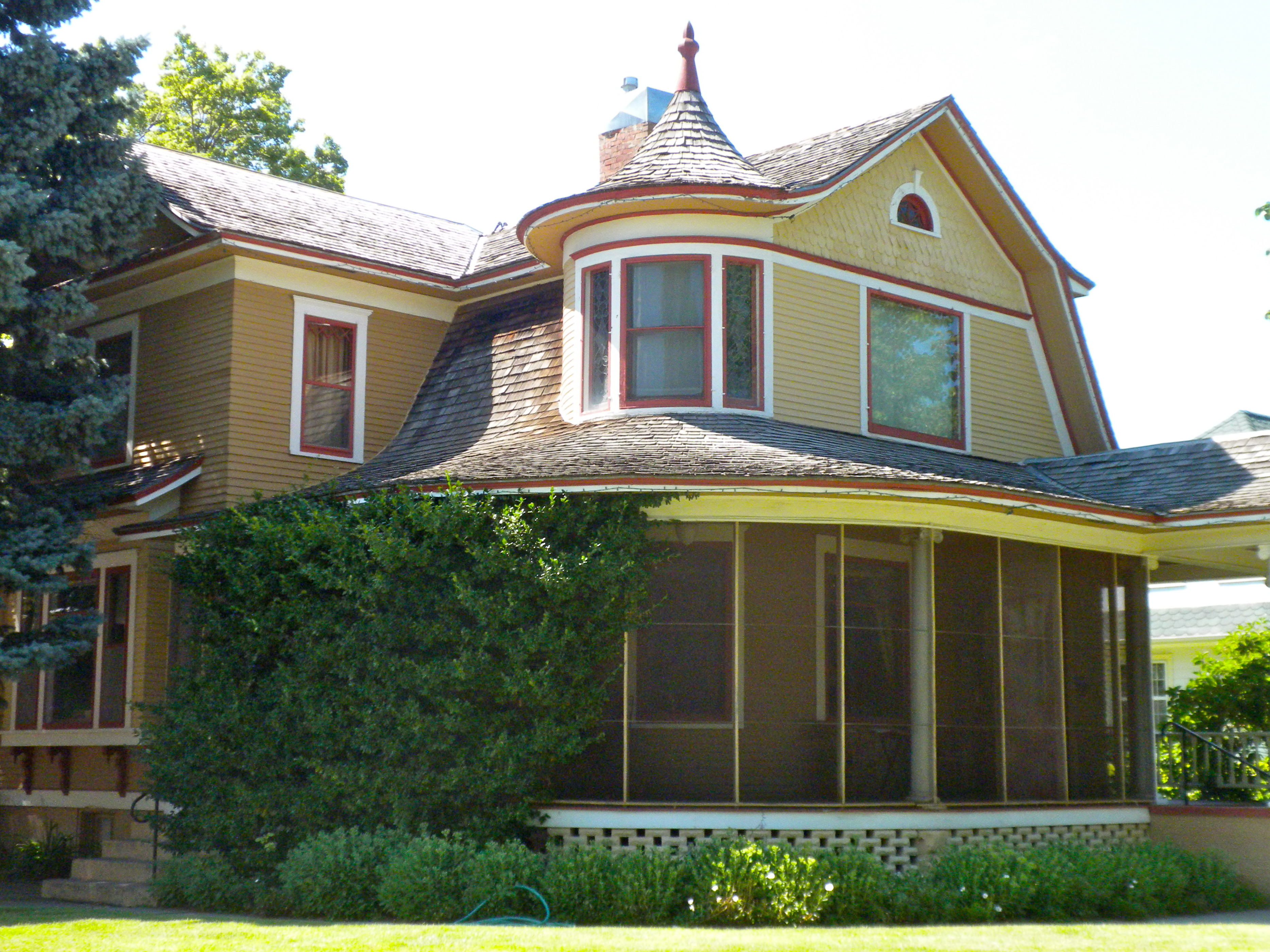 Ernest A. Calling House on the NRHP since October 25, 1979. At 1514 Lake Ave., Gothenburg, Nebraska